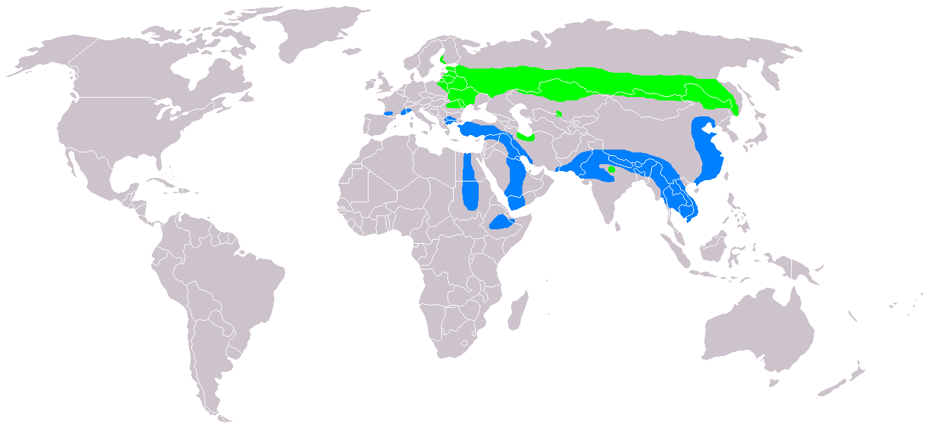 Distribution of Aquila clanga nesting area resident all year wintering area